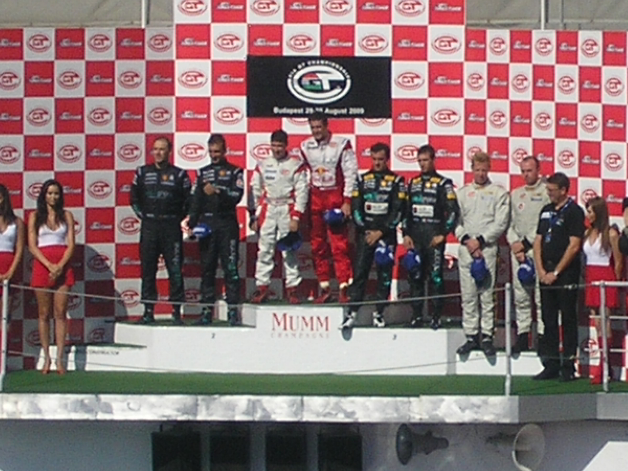 2009 FIA GT Budapest City - They are the GT1 winners.